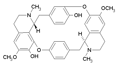 curare structure